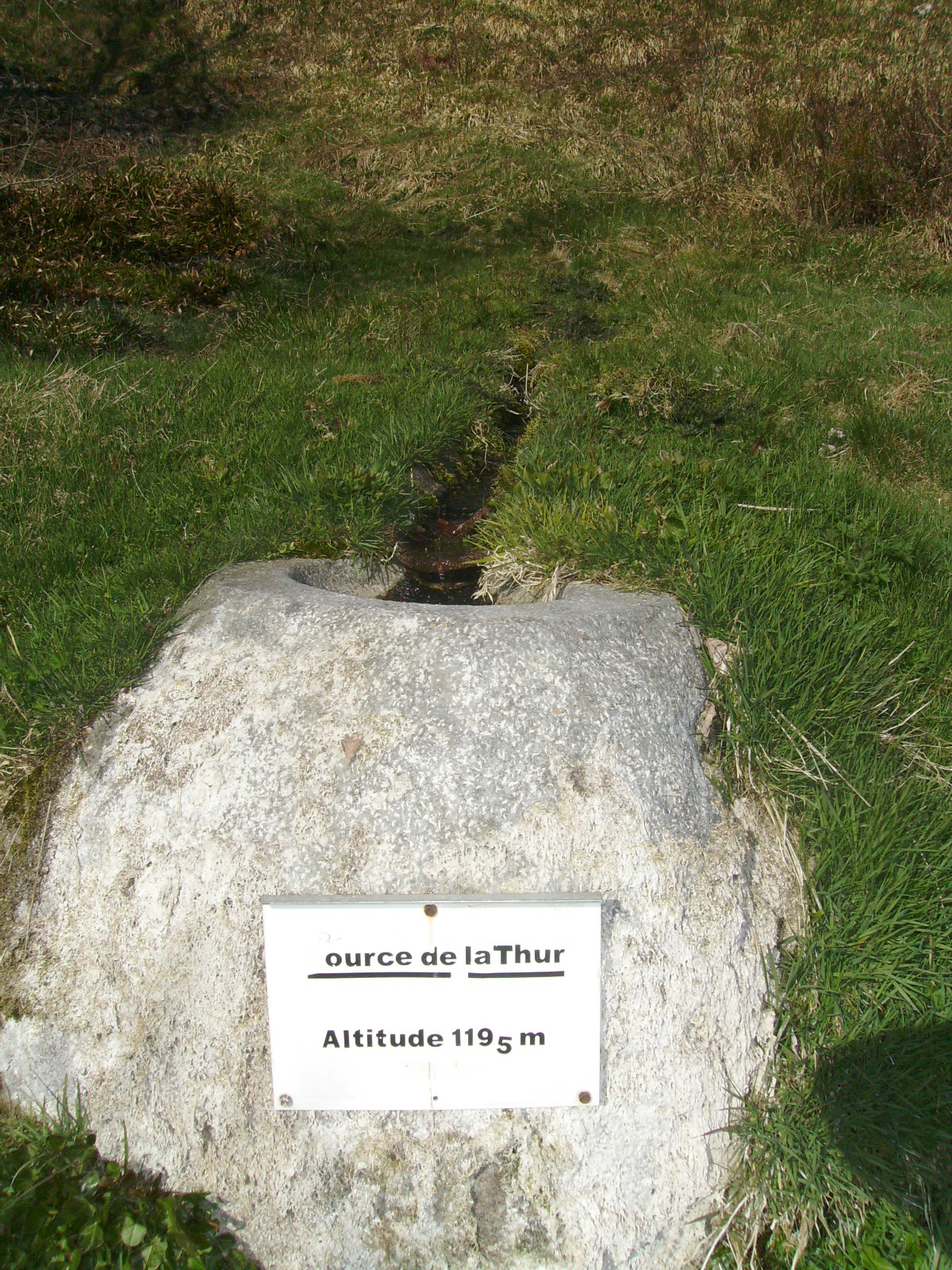 Source de la Thur